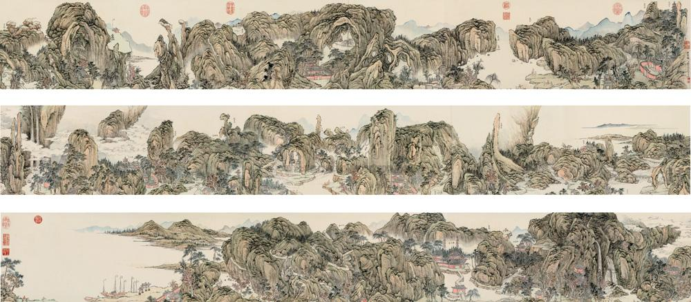 Yandang mountain, ink and color on paper, hand scroll, 31.5 x 731 cm. This painting was sold 129.92 million ($20 million) at Baoli Beijing Spring Auction in 2010.